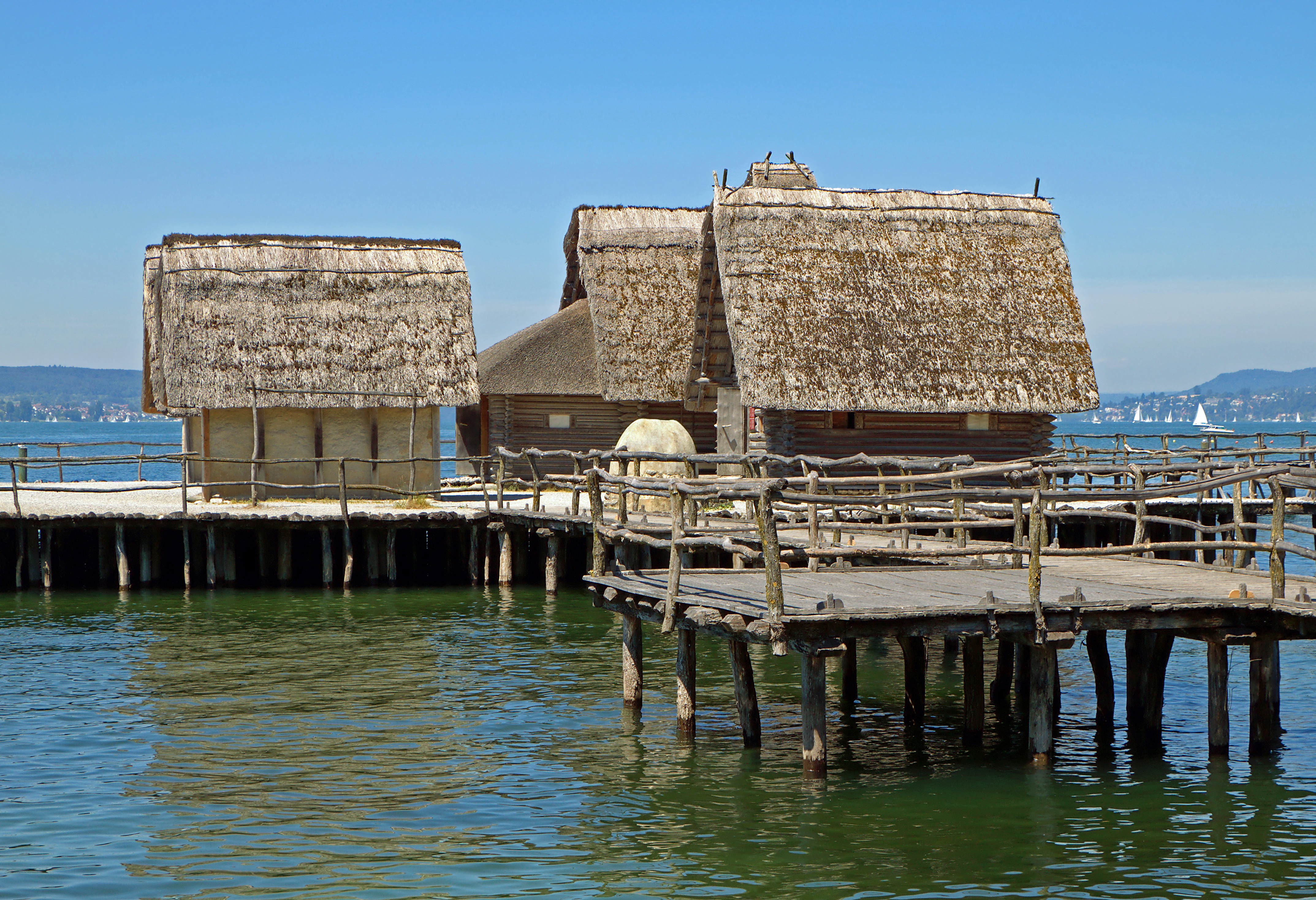 Bronze Age Village Buchau, Pfahlbaumuseum Unteruhldingen, Uhldingen-Mühlhofen, Lake Constance, Germany